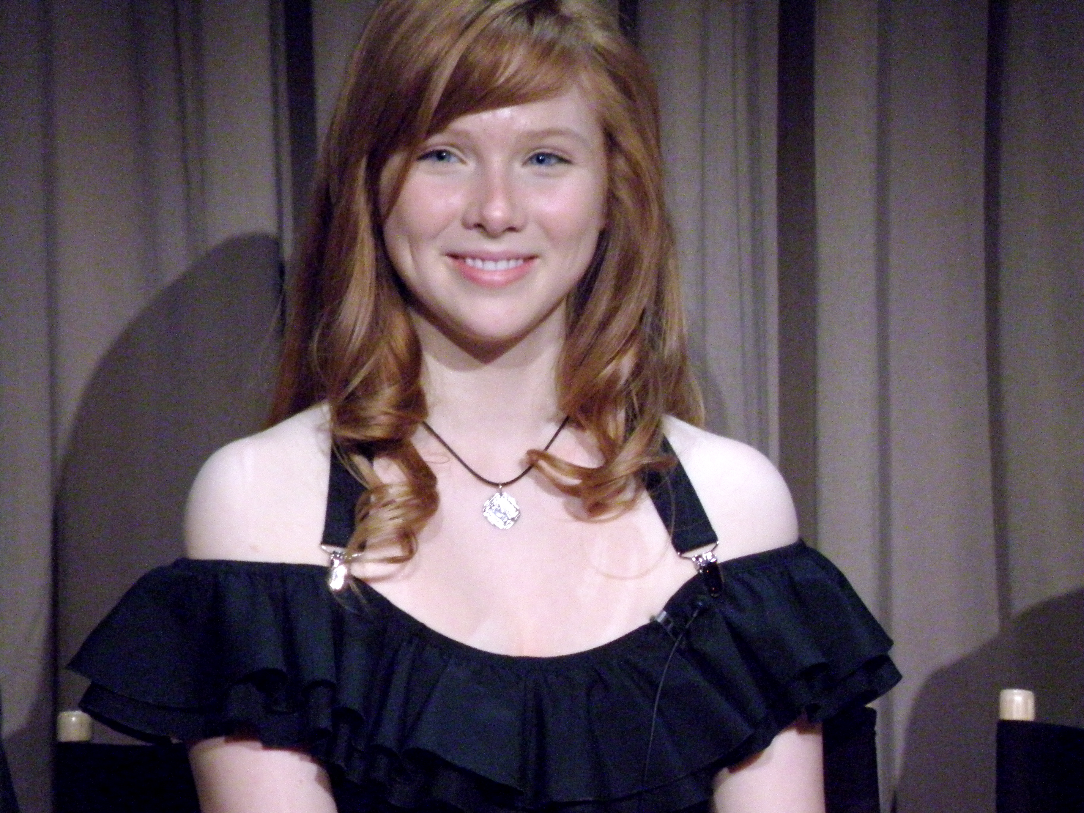 Actress Molly Quinn during "An Evening with Castle" at the Paley Center for Media